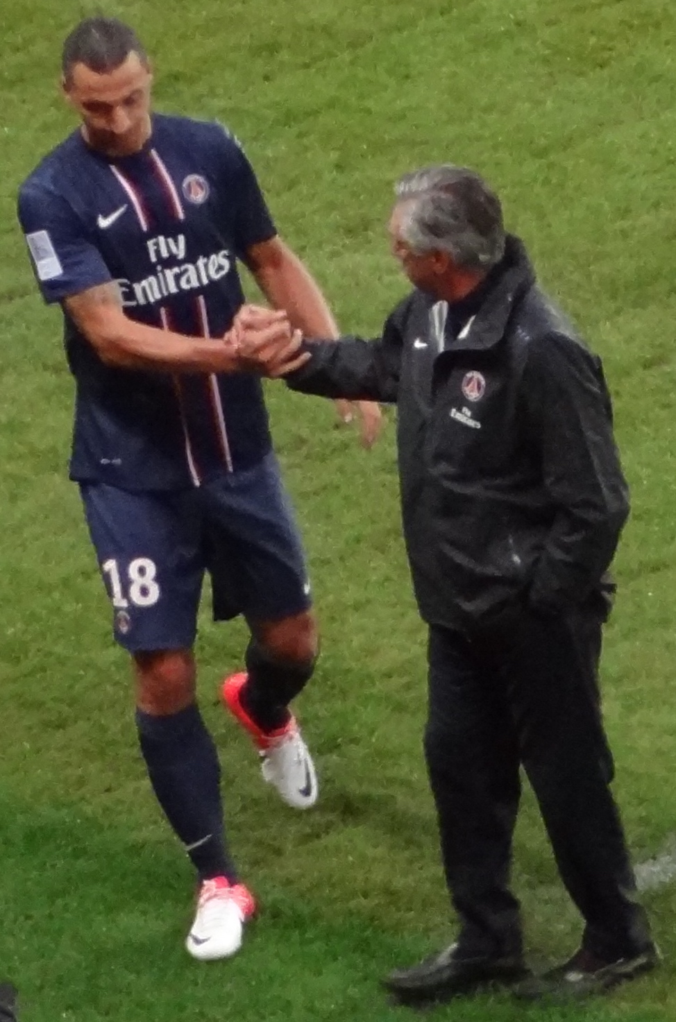 Zlatan Ibrahimović & Carlo Ancelotti (PSG)